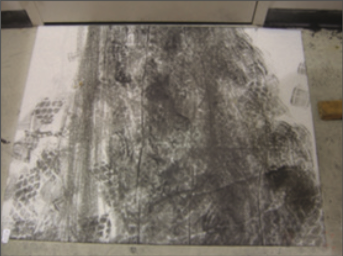 A “sticky mat,” demonstrating the collection of dirt and debris from shoes in a nanomaterial production facility. The use of walk off sticky mats at exits can help to reduce potential tracking of nanoparticles outside of the facility. Ideally engineering controls should eliminate the amount of dust collecting on the floor and a well-controlled work environment should have minimal dust collected from the shoes unlike this example.